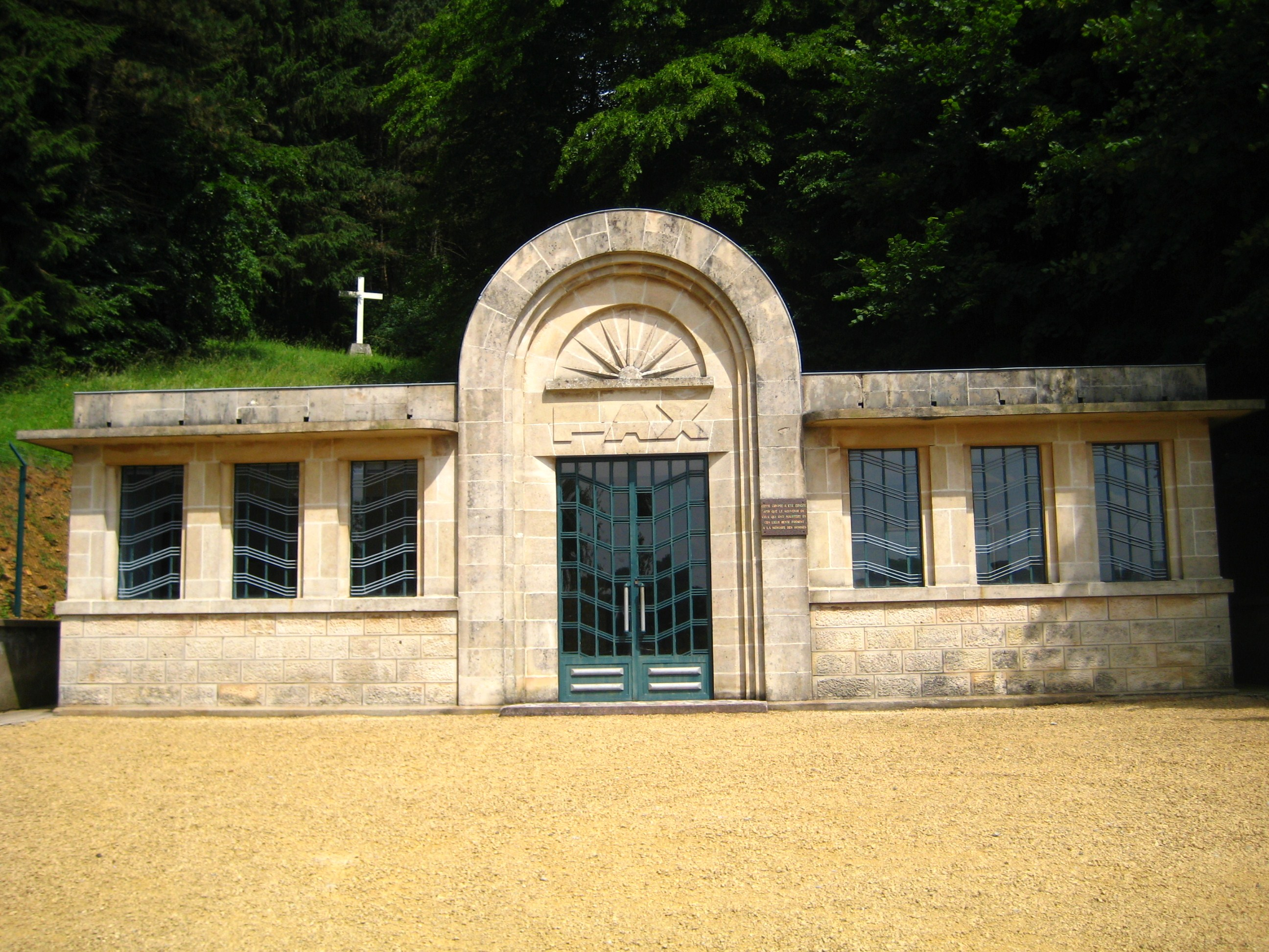 Description Camp de Thil Date26 June 2009Sourcemon appareil photoAuthorAimelaime Camp de Thil